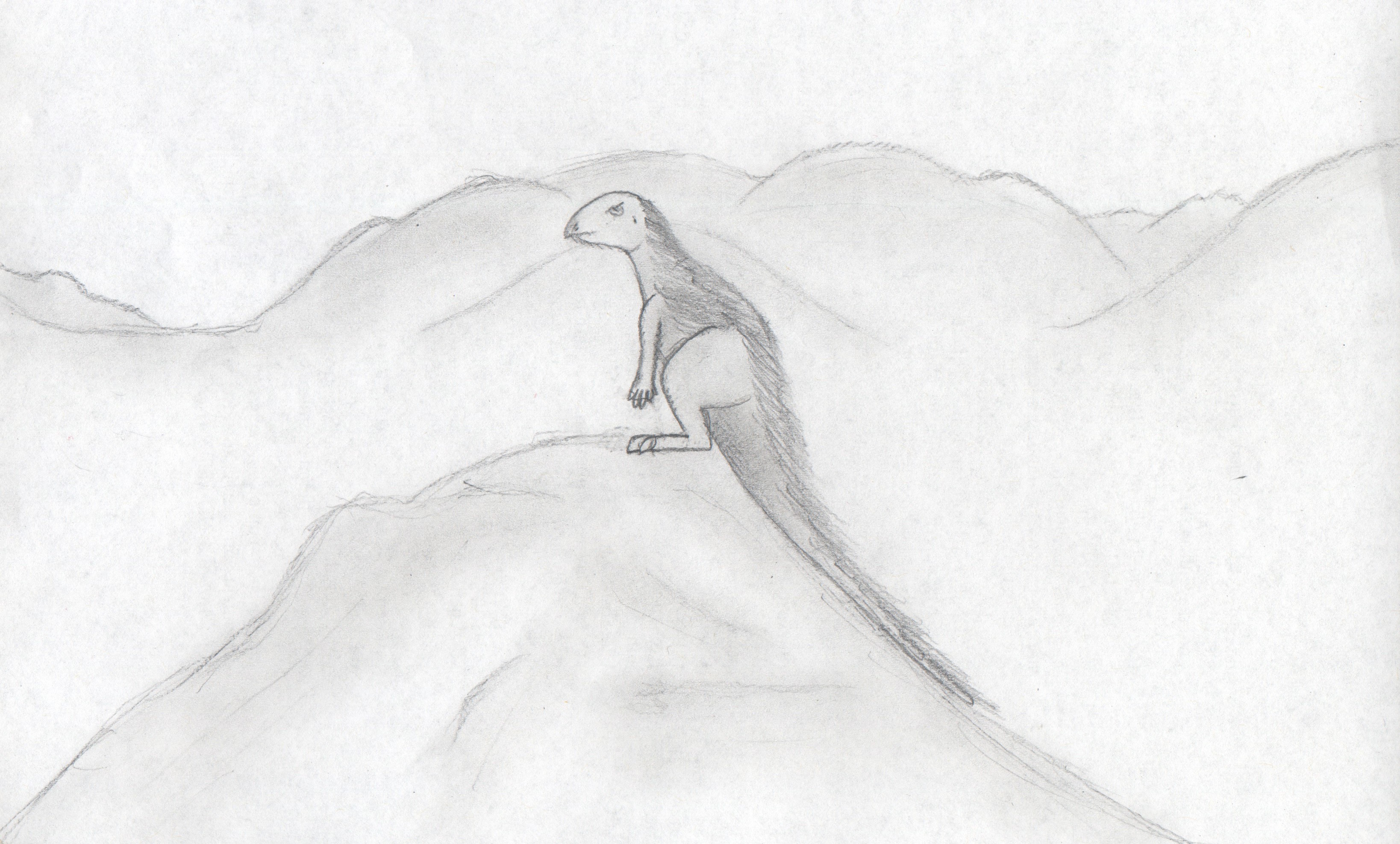 Life restoration of Jeholosaurus sitting on a rock.